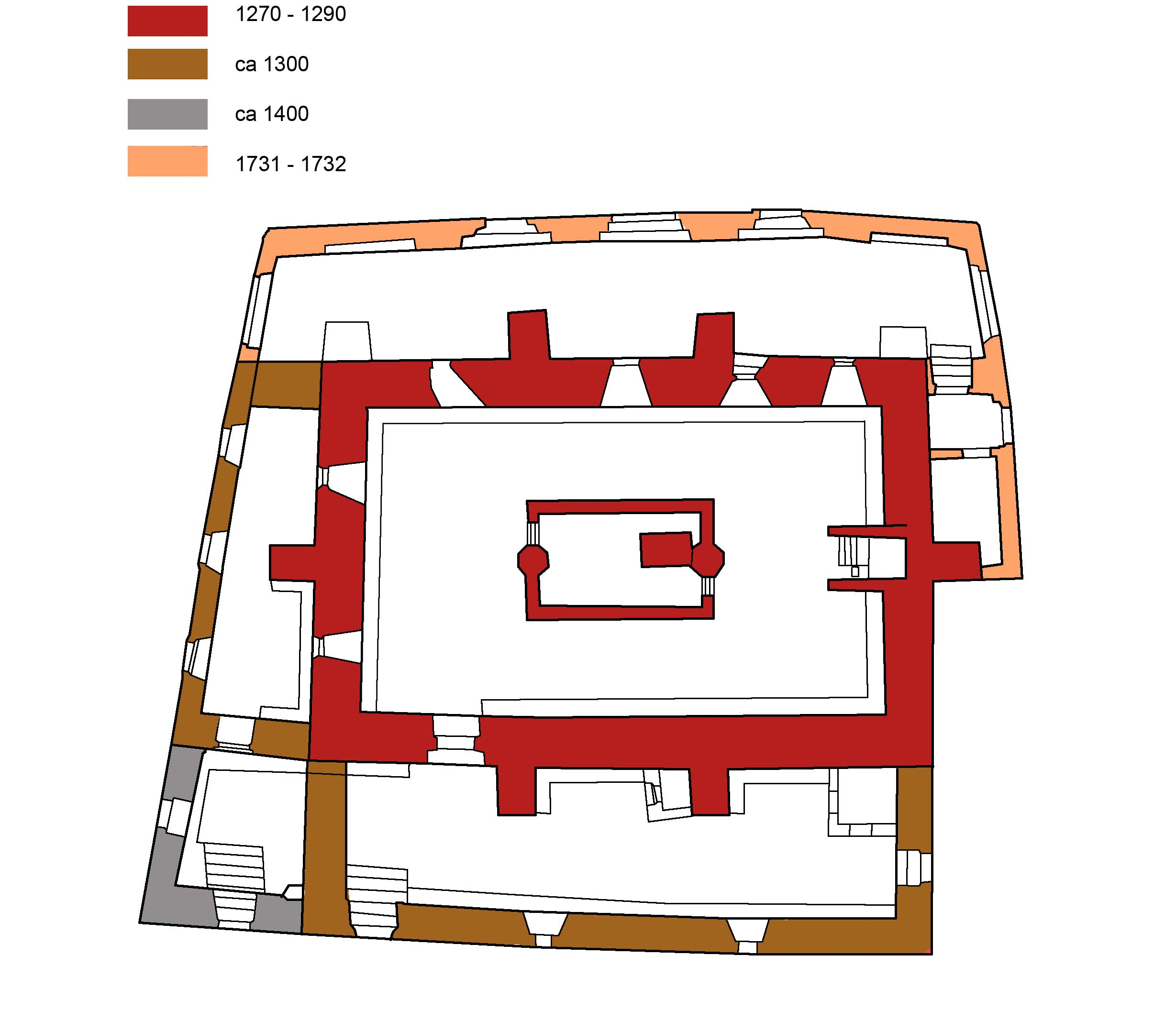 Old-new synagogue in Prague, CZ